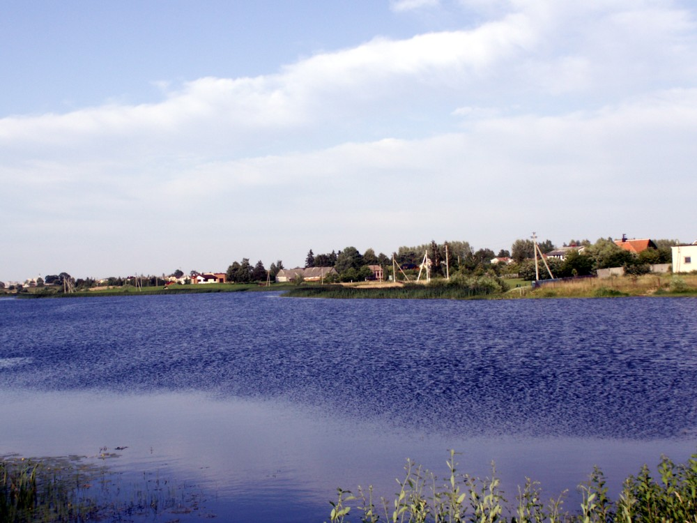 Raizgiai, Šiauliai district, Lithuania